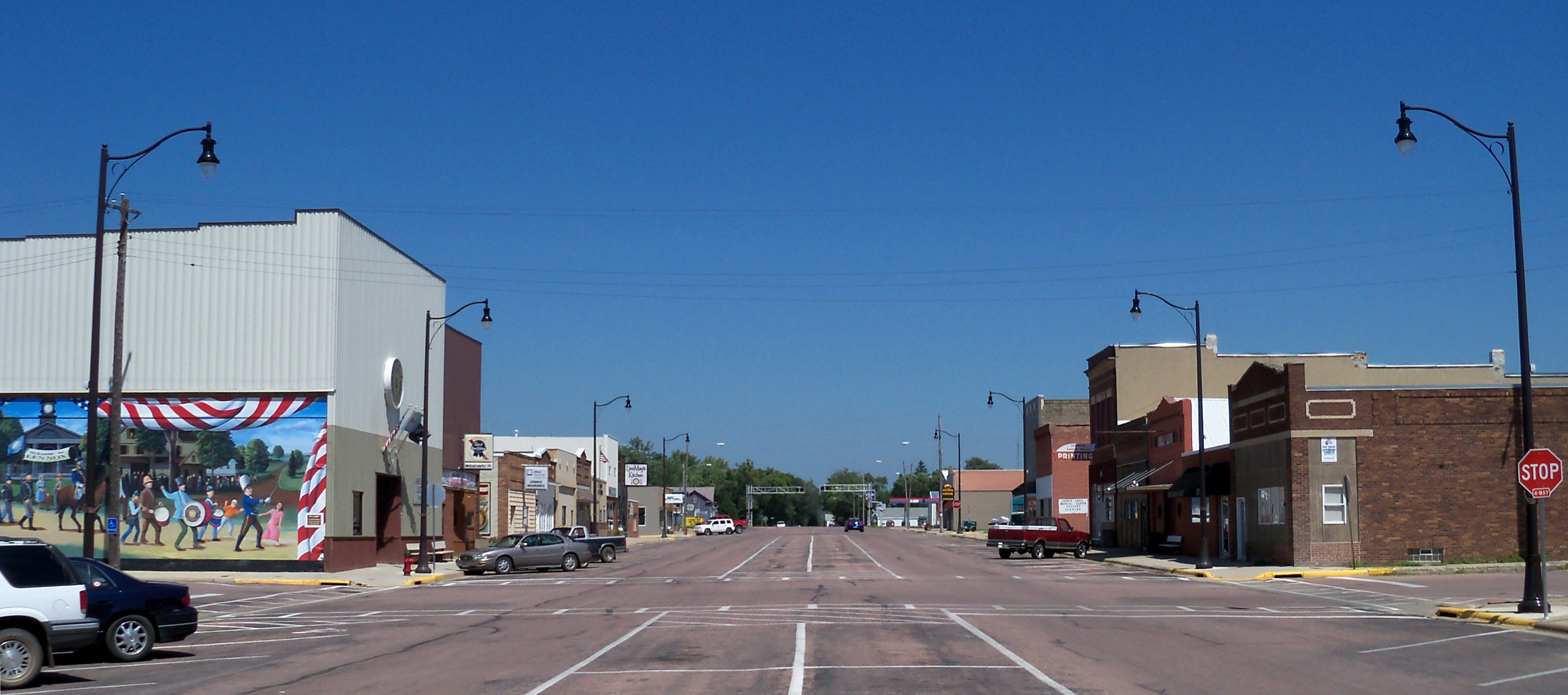 Downtown Lennox, South Dakota, USA.